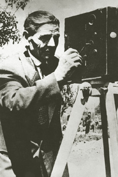 Picture of Milton Manaki filming with Bioscope Camera 300.